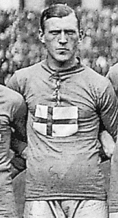 Swedish footballer Herbert "Murren" Karlsson in lineup before a game against Netherlands.